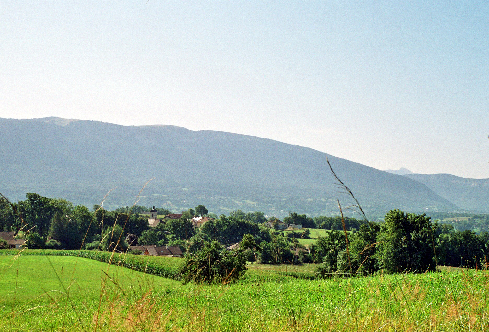 Village of Chapeiry (Haute-Savoie, France).